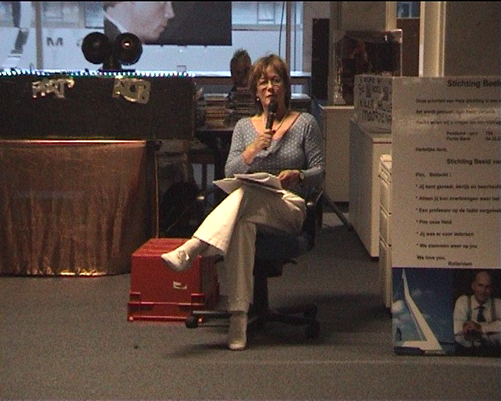 Pamela Hemelrijk at the Beeld van Pim (statue of Pim Fortuyn) party at the Spaanse kubus in Rotterdam in July 2003.